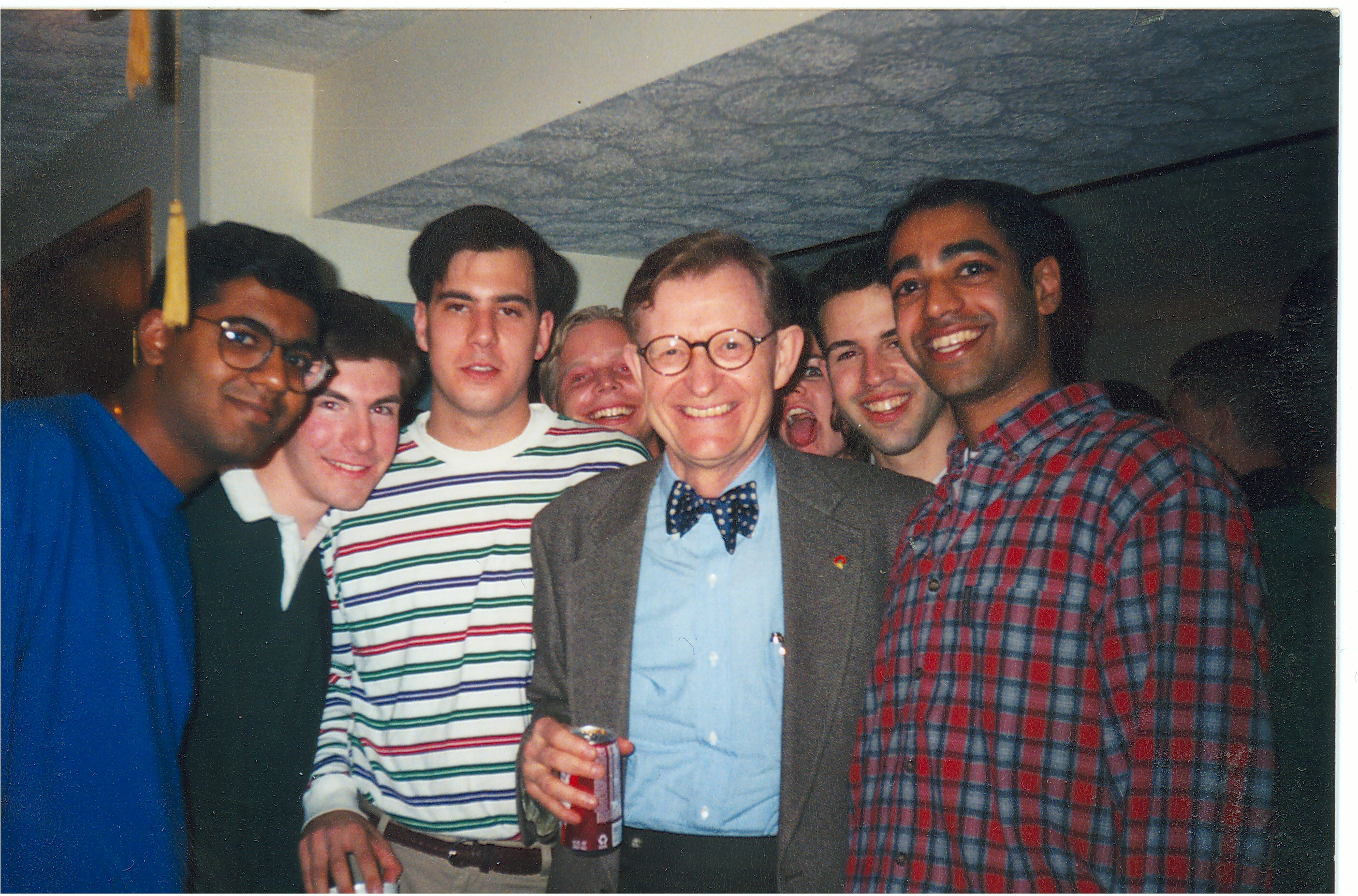 Picture taken at a keg party off-campus at Ohio State. Around 1995-96. Gee was rehired by OSU in July 2007.